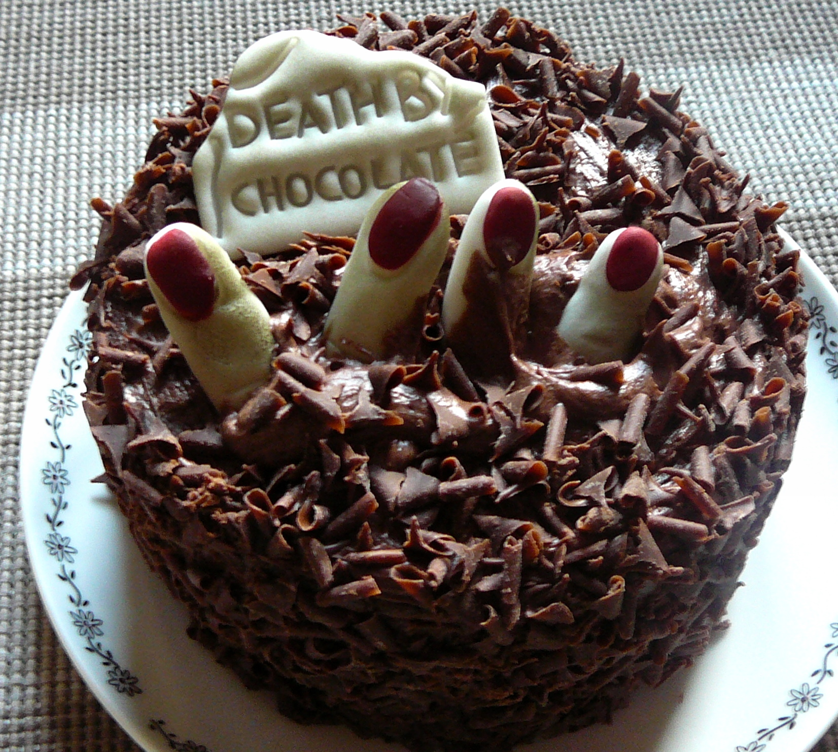 warning for diabetic